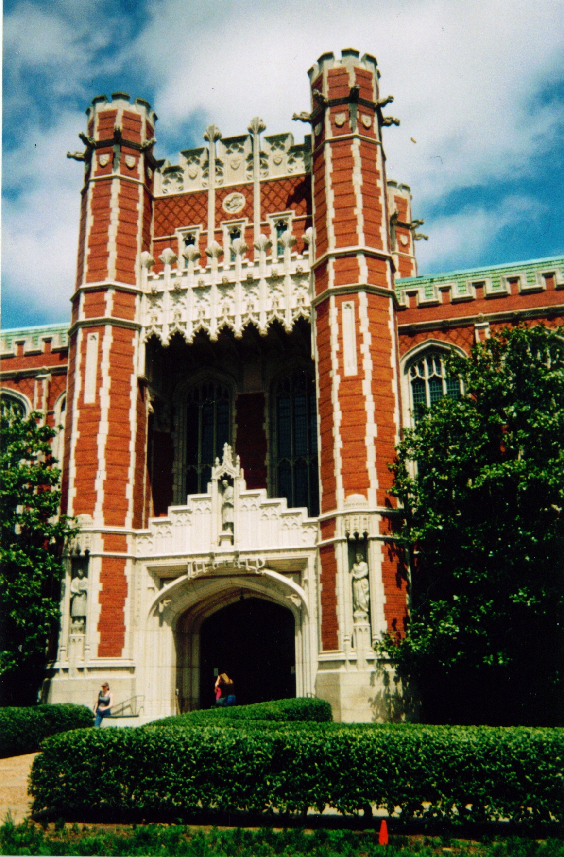 The front Gothic Revival style facade of the Bizzell Memorial Library in Norman, Oklahoma.